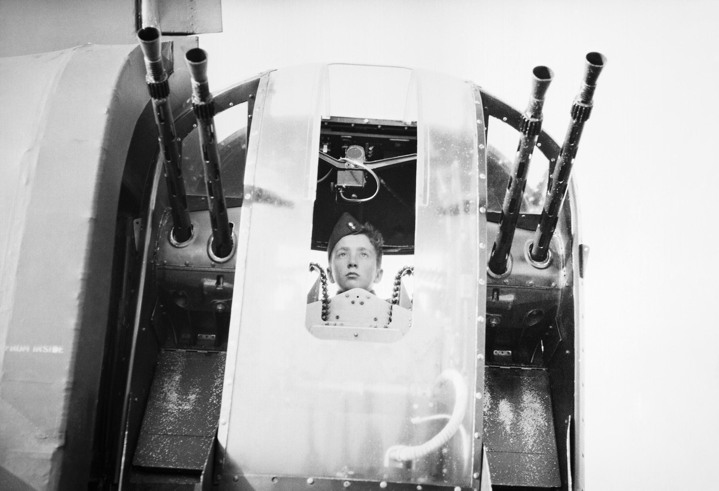 15-year-old cadet Tommy McMordie from Luton Air Training Corps (ATC) in a Wellington bomber's rear turret at No 12 Operational Training Unit (OTU) at Chipping Warden, Northamptonshire, 17 September 1944. Boys from the Luton Air Training Corps (ATC) were treated to a day at No 12 Operational Training Unit (OTU) at Chipping Warden, Northamptonshire, on 17 September 1944. Here, 15-year-old Cadet Tommy McMordie trying the rear turret of one of the unit's Wellingtons for size.